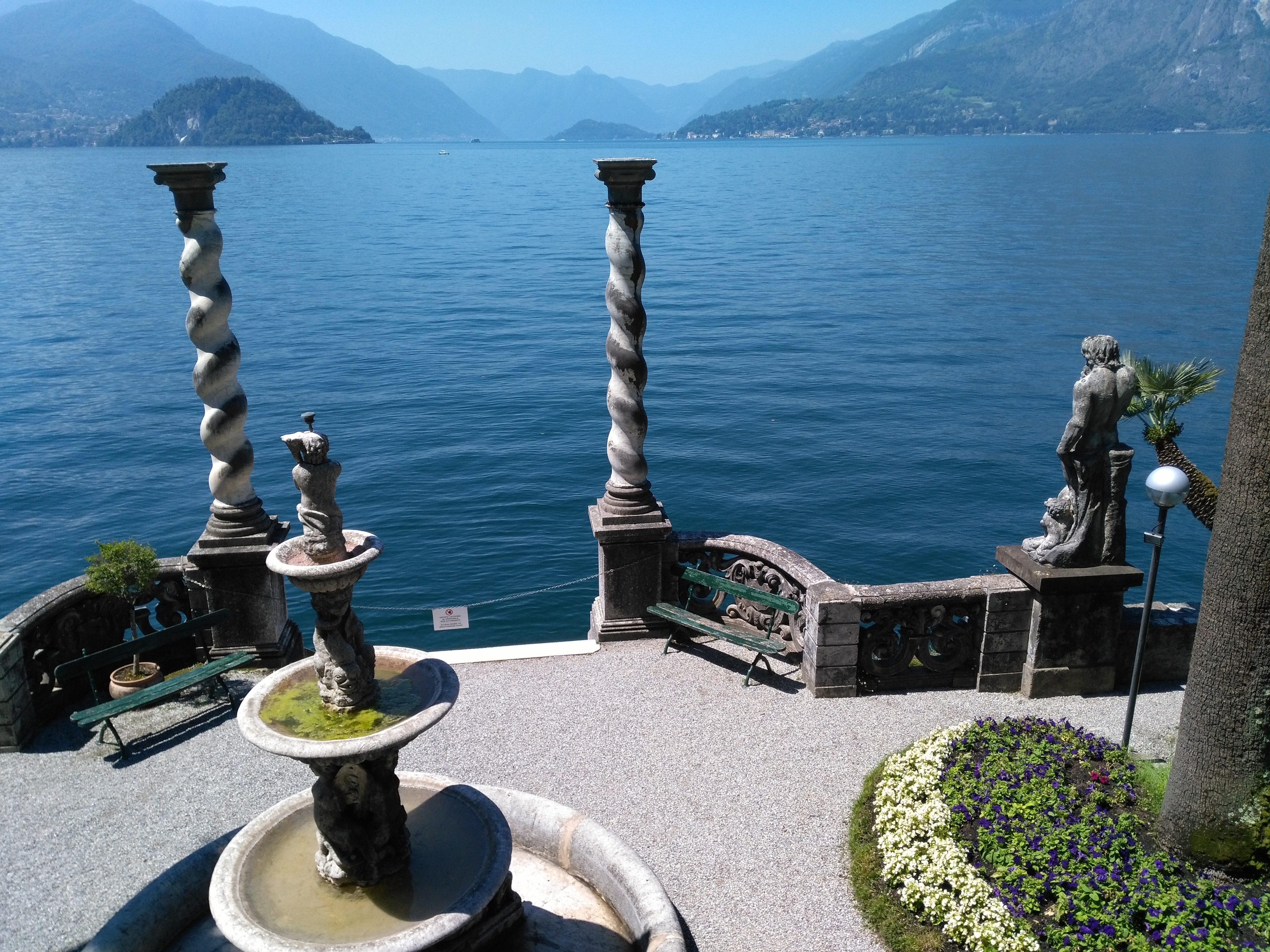 The ship landing place of Villa Monastero, Varenna